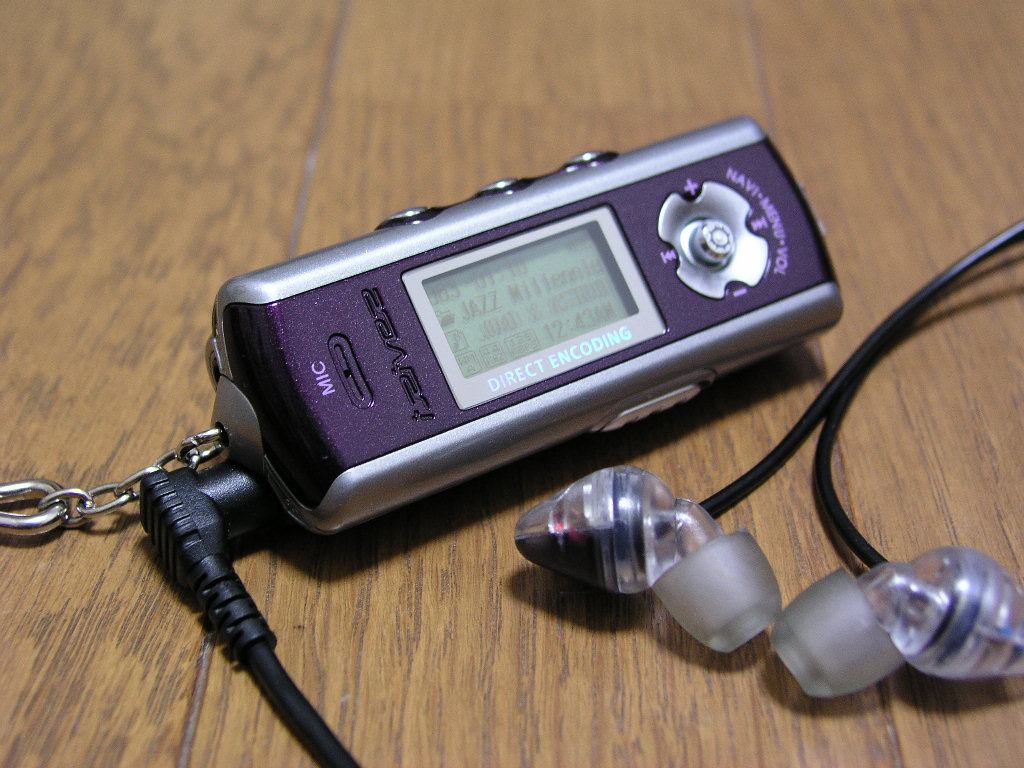 Digital audio player iRiver iFP-799 and Canalphones SHURE E2c